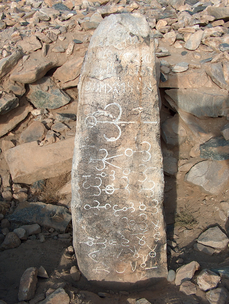 An inscription dedicated for a Turkic princess